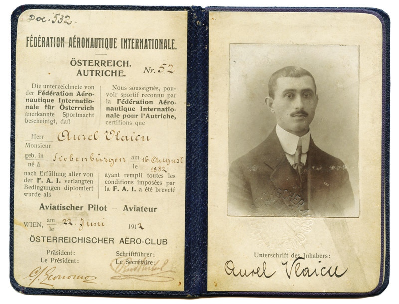 Aurel Vlaicu pilot license number 52